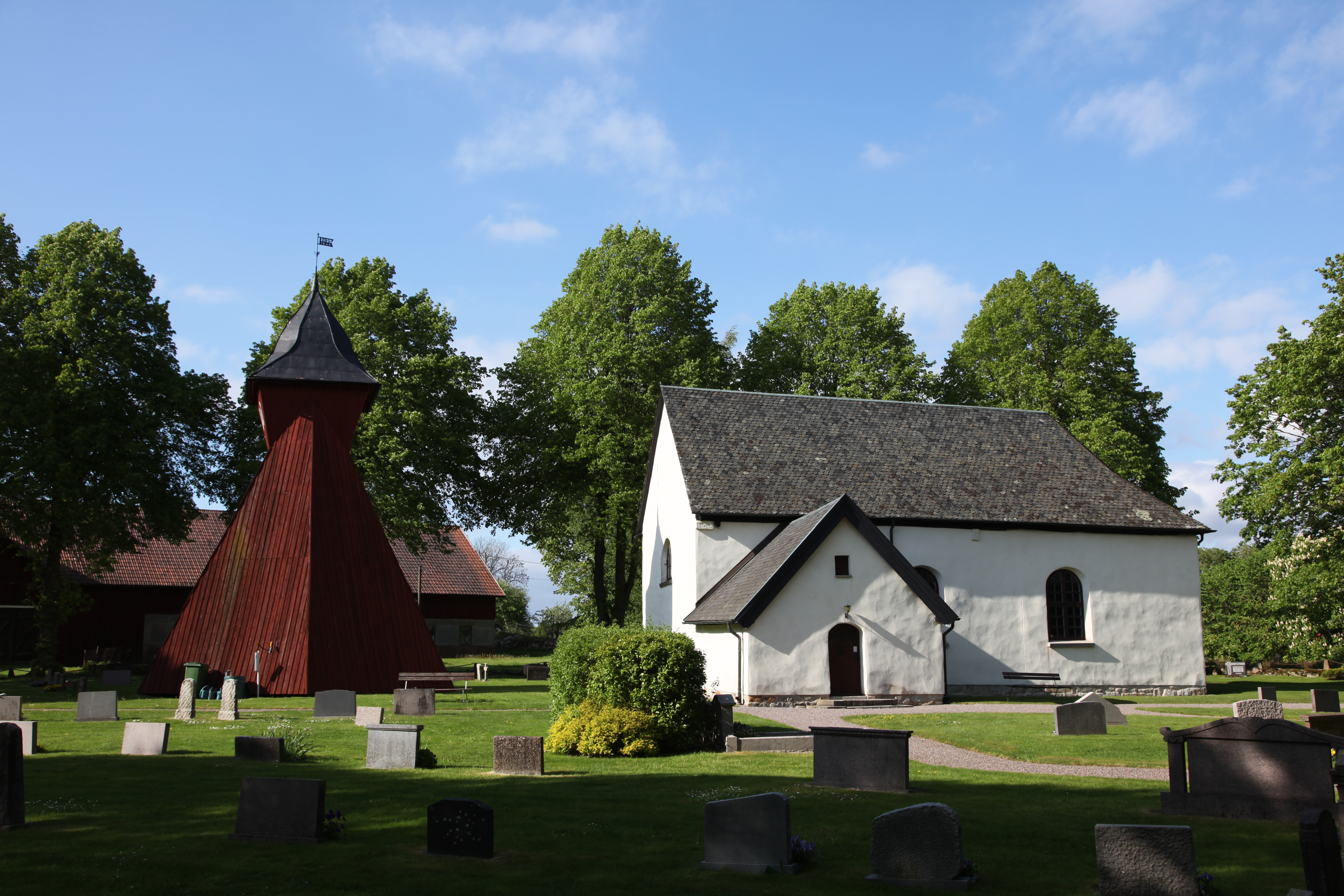 Fullõsa kyrka. A church near Lidköping